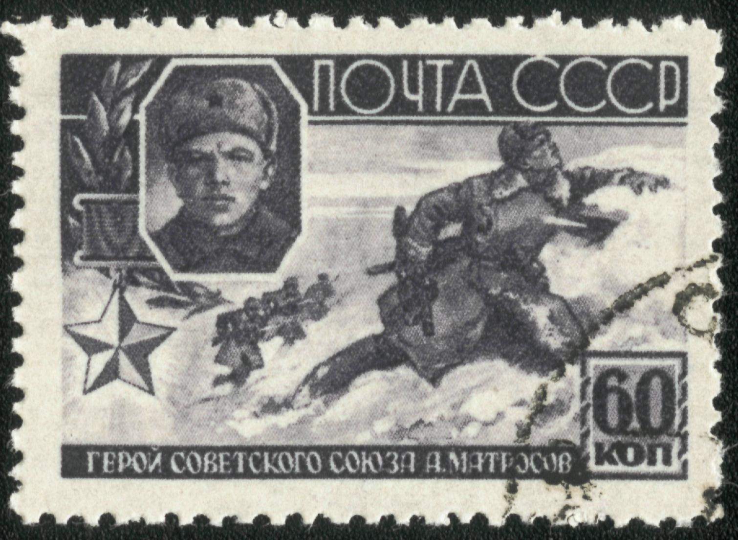 Soviet postal stamp, 1944. Alexander Matrosov, Hero of the Soviet Union. CPA #924.